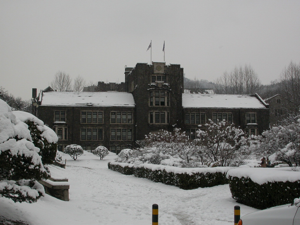 Underwood hall